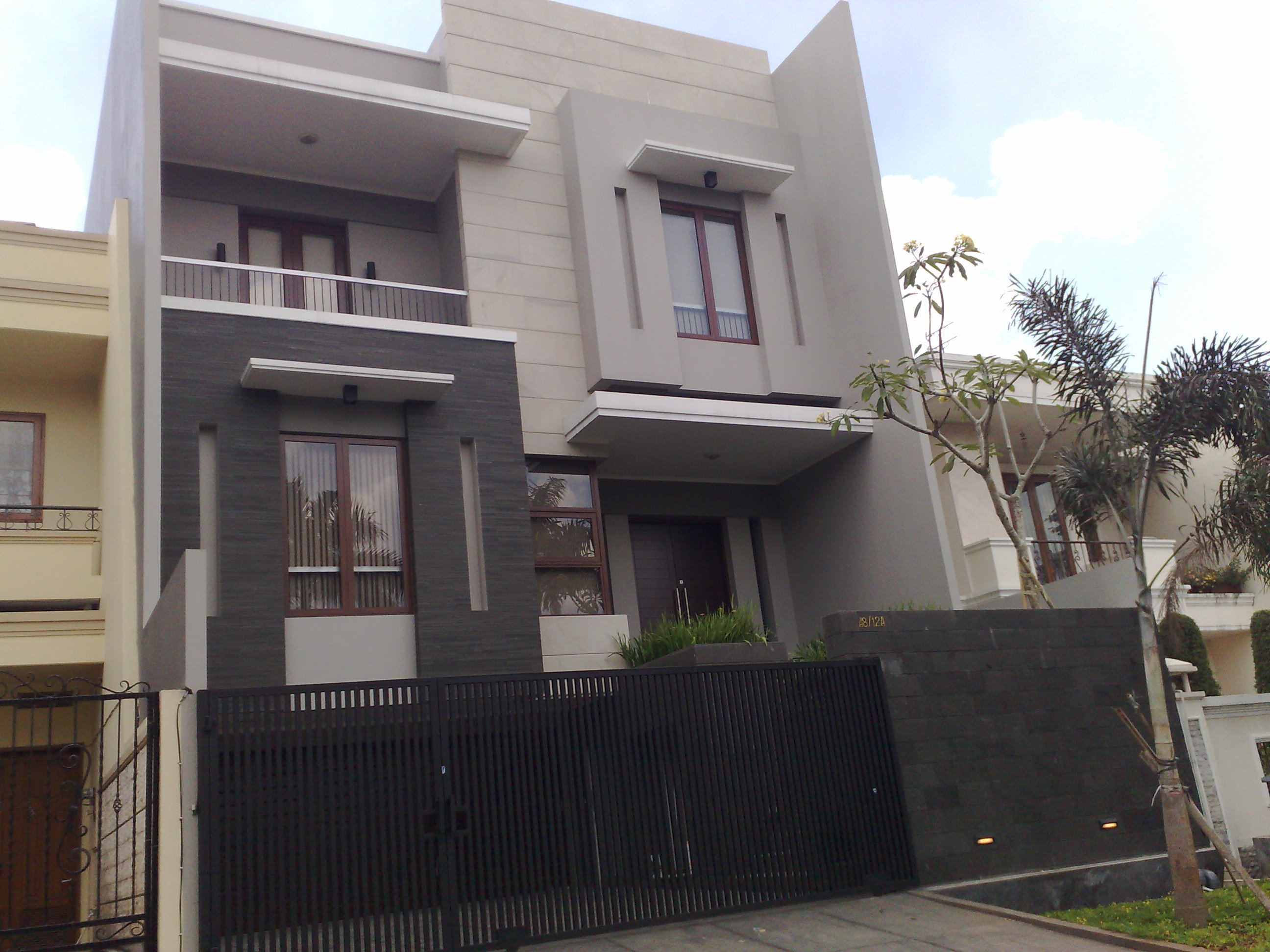 A new built house in Jakarta, photo taken in 2008